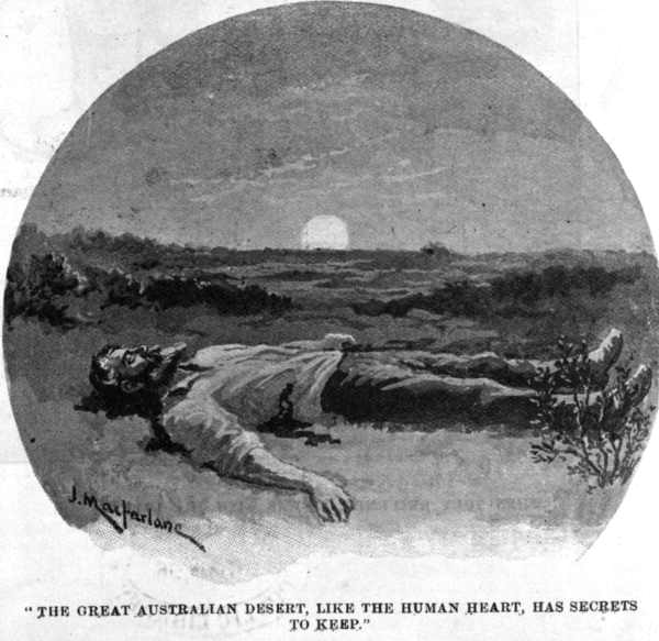 Sketches illustrating a story of murder in the desert: Man lying dead in the desert, a bleeding wound in his side.